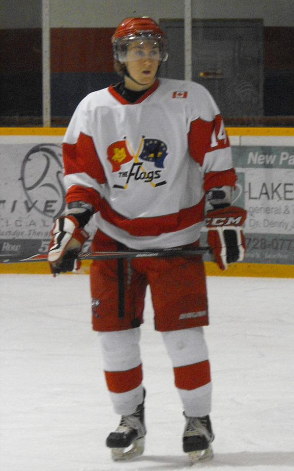 These images of GLJHL action during the 2013-14 season are taken by Devan Mighton.